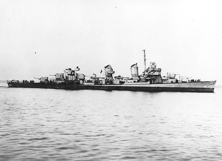 The U.S. Navy destroyer USS Chevalier (DD-451) in 1942. This image has been retouched by the wartime censor to remove radar antennas atop the ship's main gun director and foremast.